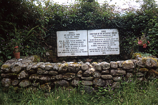 Battle of Callan Grave A great victory by the McCarthys of Munster against the Norman invaders took place near here in 1261. According to this memorial, Donal, Chieftain of the McCarthy Fineens was killed in the Battle of Callan on this very spot, and was buried here where he fell.